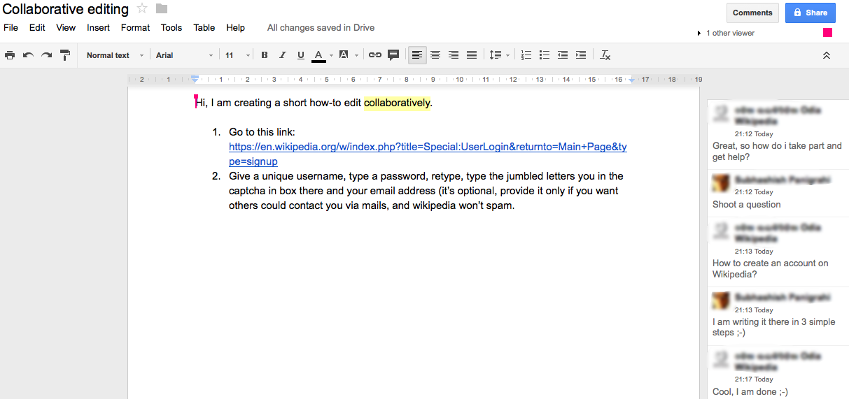 This is a sample of collaborative editing using google doc where multiple editors could interact, take support from a mentor and edit.